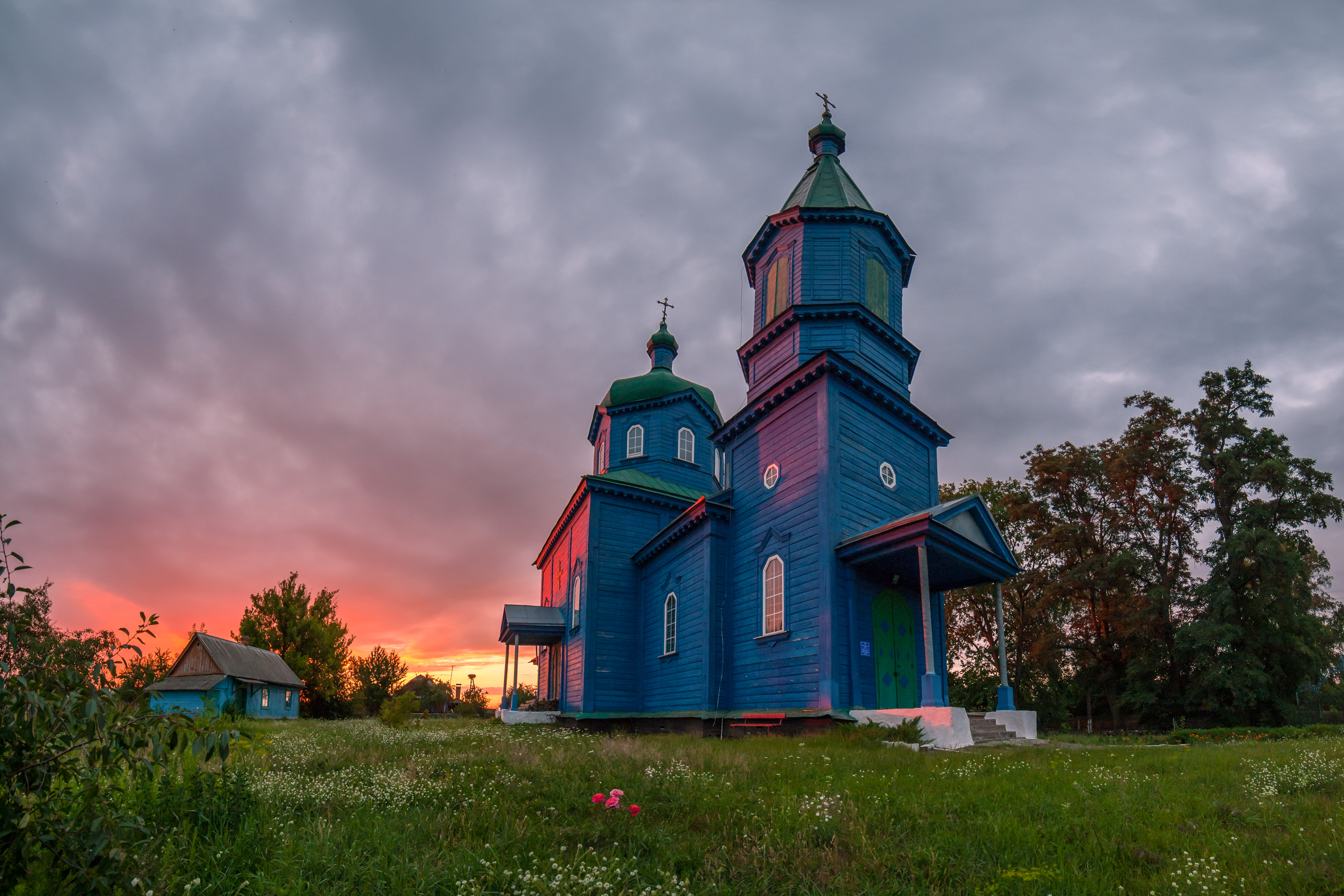 Exaltaion Church in Staryi Solotvyn, Zhytomyr Oblast, Ukraine.